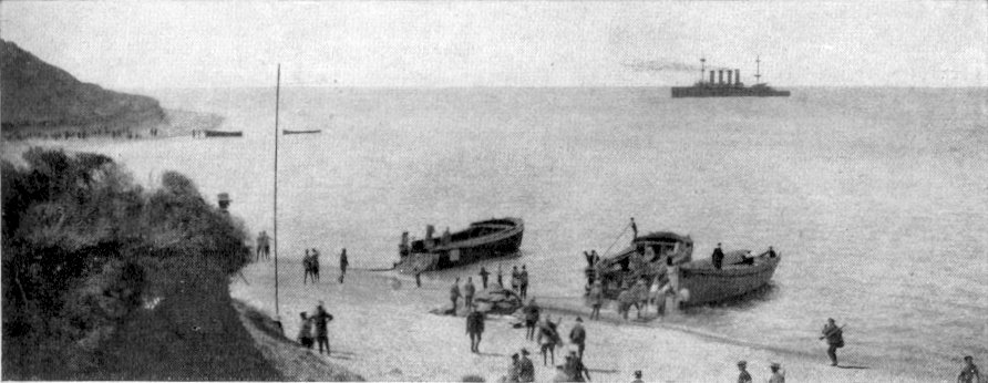 Troops landing in Anzac Cove on the morning of 25 April 1915. The horse boats in the foreground have been landing mules for Jacob's 26th Indian Mountain Battery. In the background is the cruiser HMS Bacchante heading for Gaba Tepe.